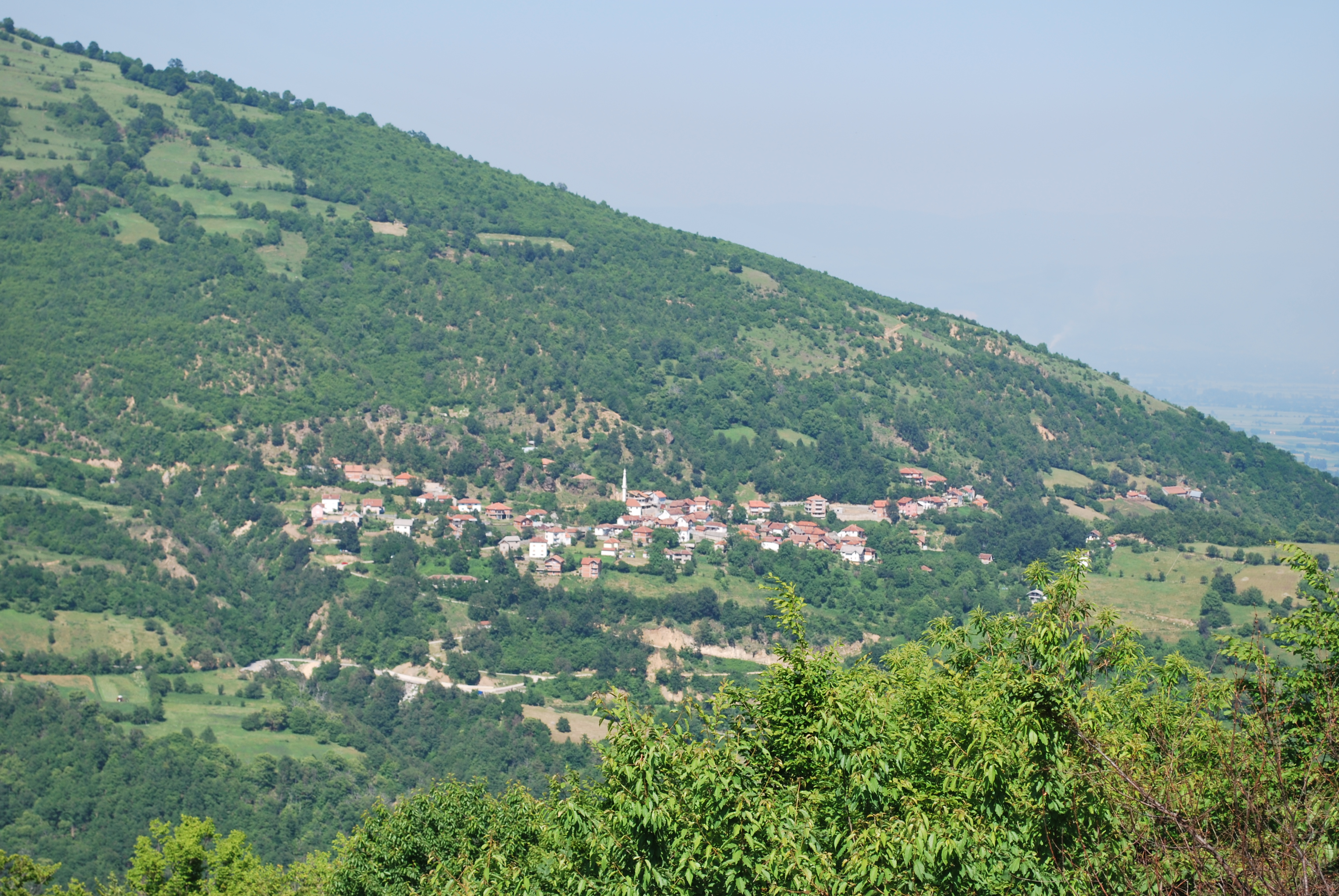 Village of Lavce near Tetovo in Macedonia